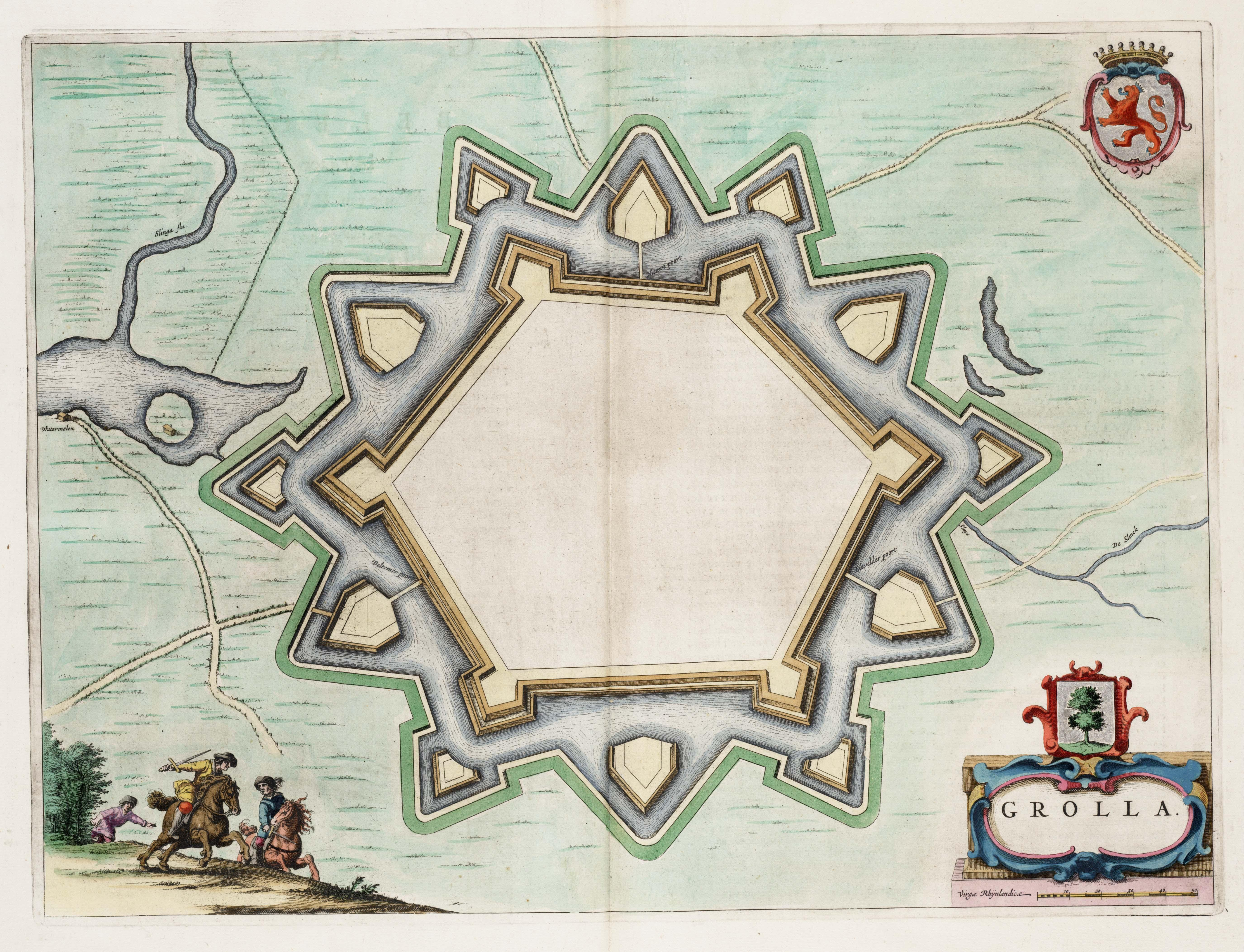 Map of the defensive works of Grolla (Groenlo) - the Netherlands, after the restaurations made in 1628. Map found in the Theater of Cities of 1649.